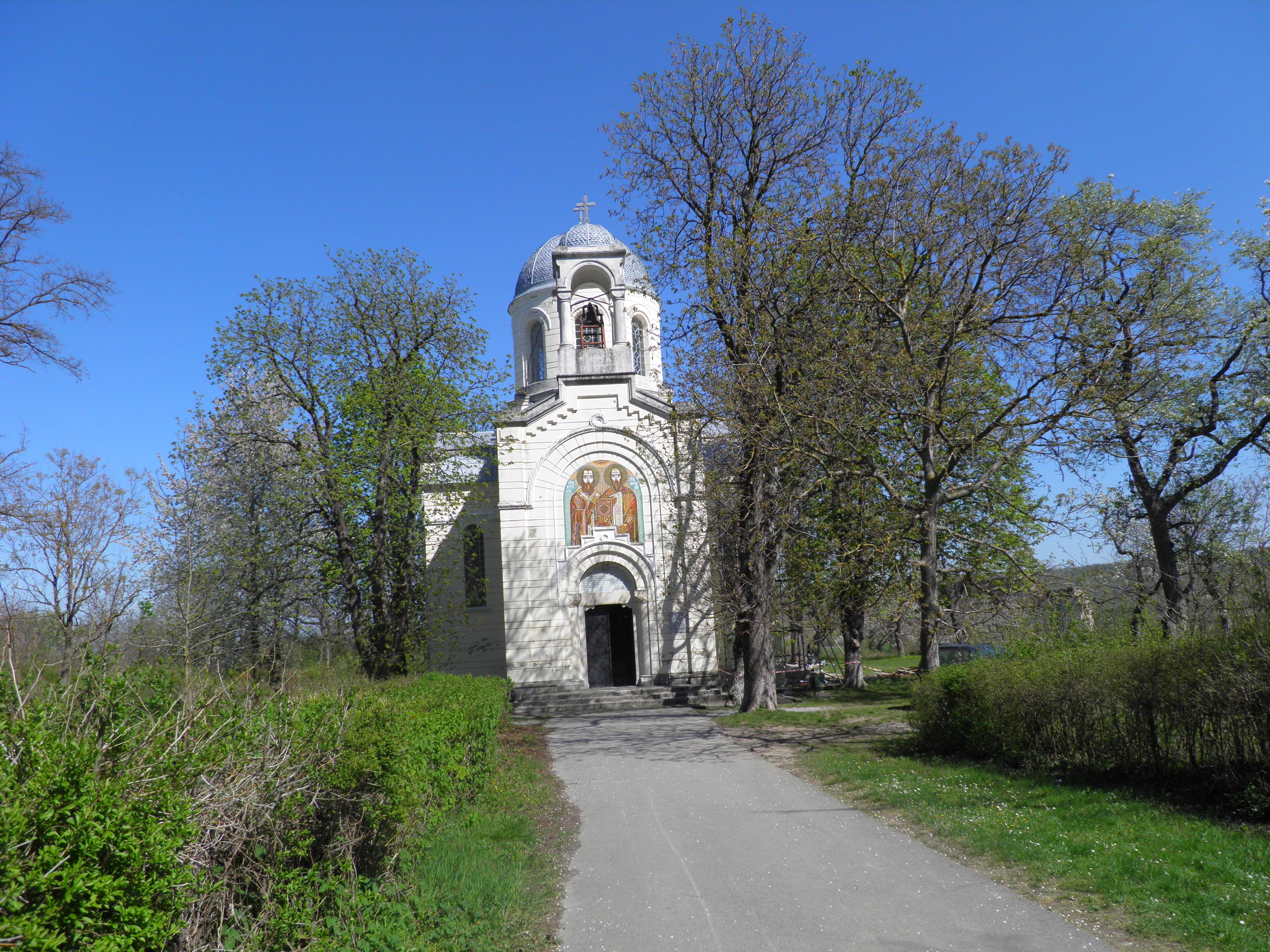 Temple Monumenti Cyril and Methodius in Veliki Preslav,Bulgaria